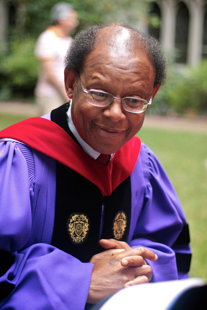 Dr. James Cone at the 174th Convocation of Union Theological Seminary in the City of New York.